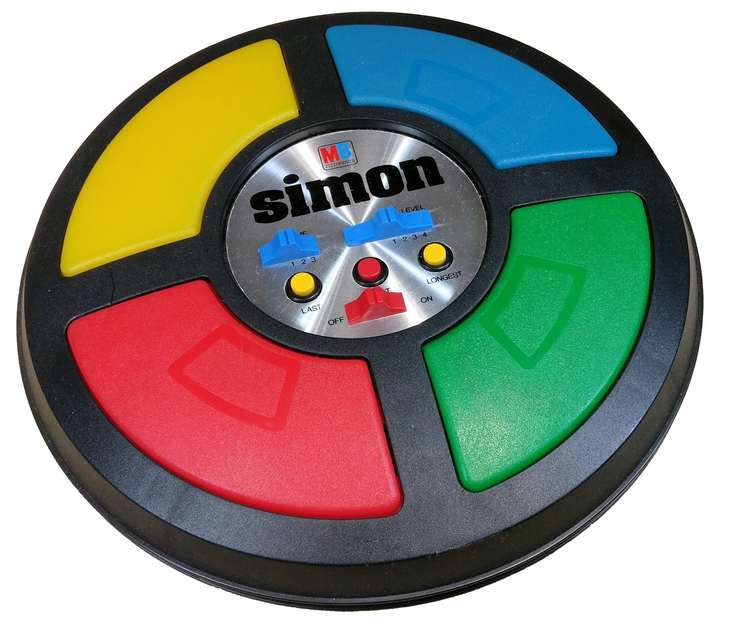 Electronic Simon game, circa 1978